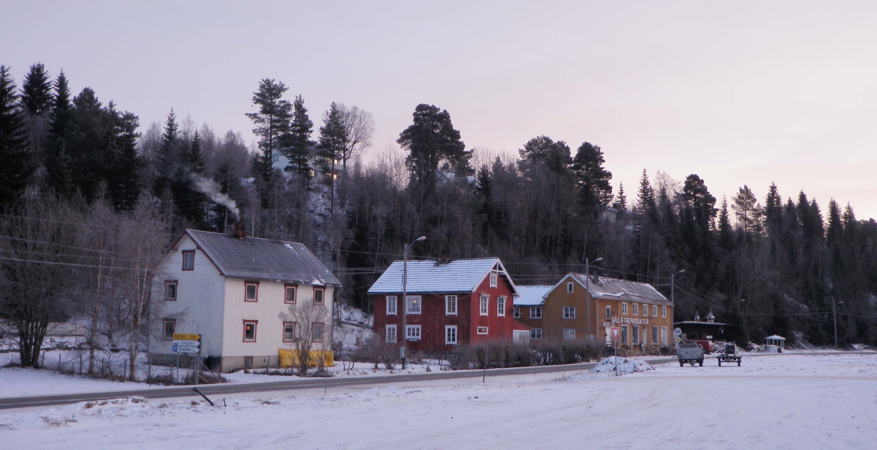 The village of Singsås in Midtre Gauldal, Sør-Trøndelag, Norway. Photo taken from Singsås Station.